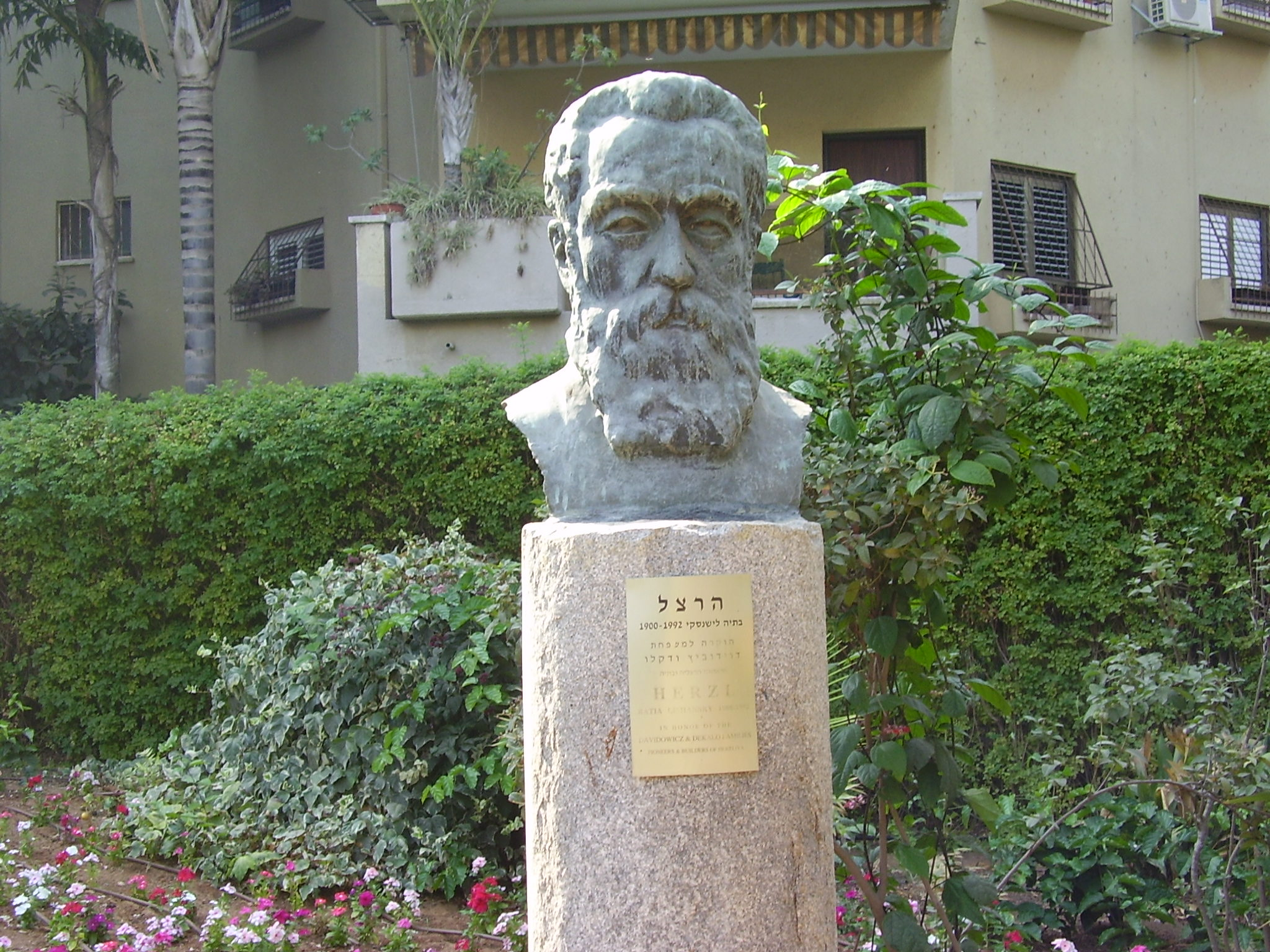 Statue of Theodor Herzl by Batia Lichansky, in Herzlia, Israel.